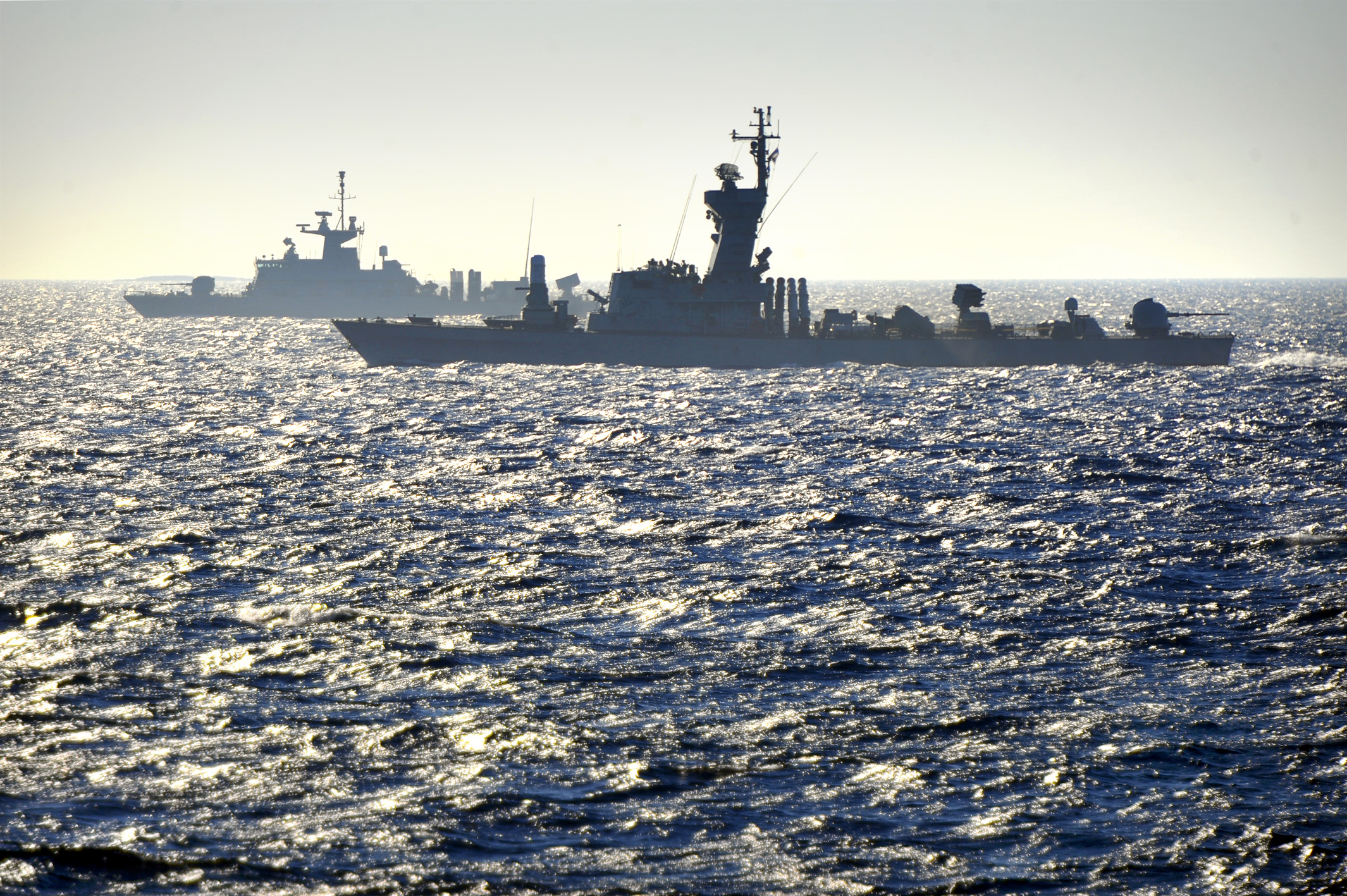 May 7, 2012 The Israeli and Greek Navies joined forces and put their cooperation to the test last May, when the two armies conducted a joint-drill near the Island of Piraeus. Photograph by Staff Sgt. Ori Shifrin, IDF Spokesperson's unit. The Israel Defense Forces Facebook • blog • Twitter